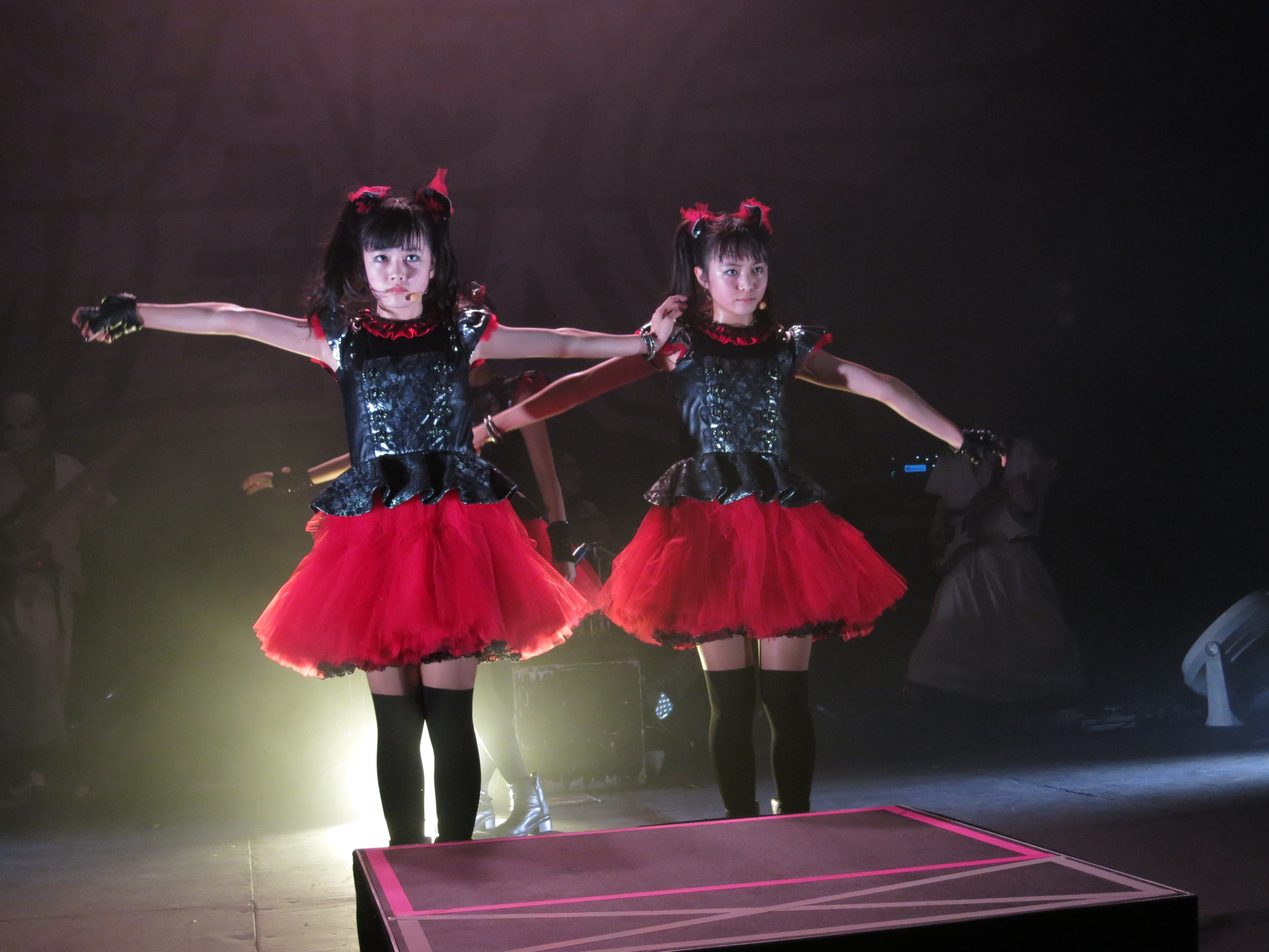 Babymetal performs live at The Fonda Theatre in Los Angeles, CA, USA.